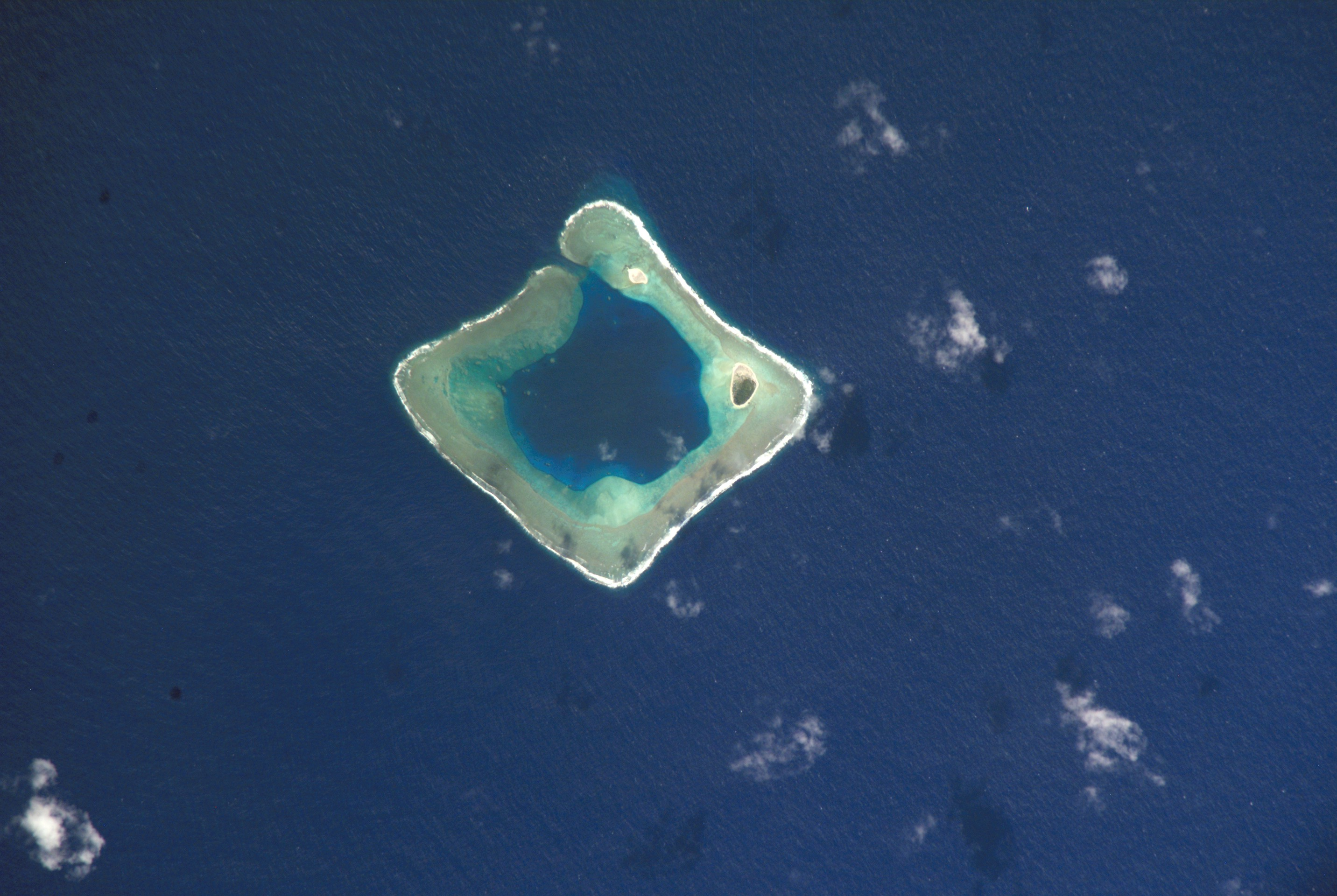 NASA astronaut image of Rose Atoll (American Samoa) in the Pacific Ocean